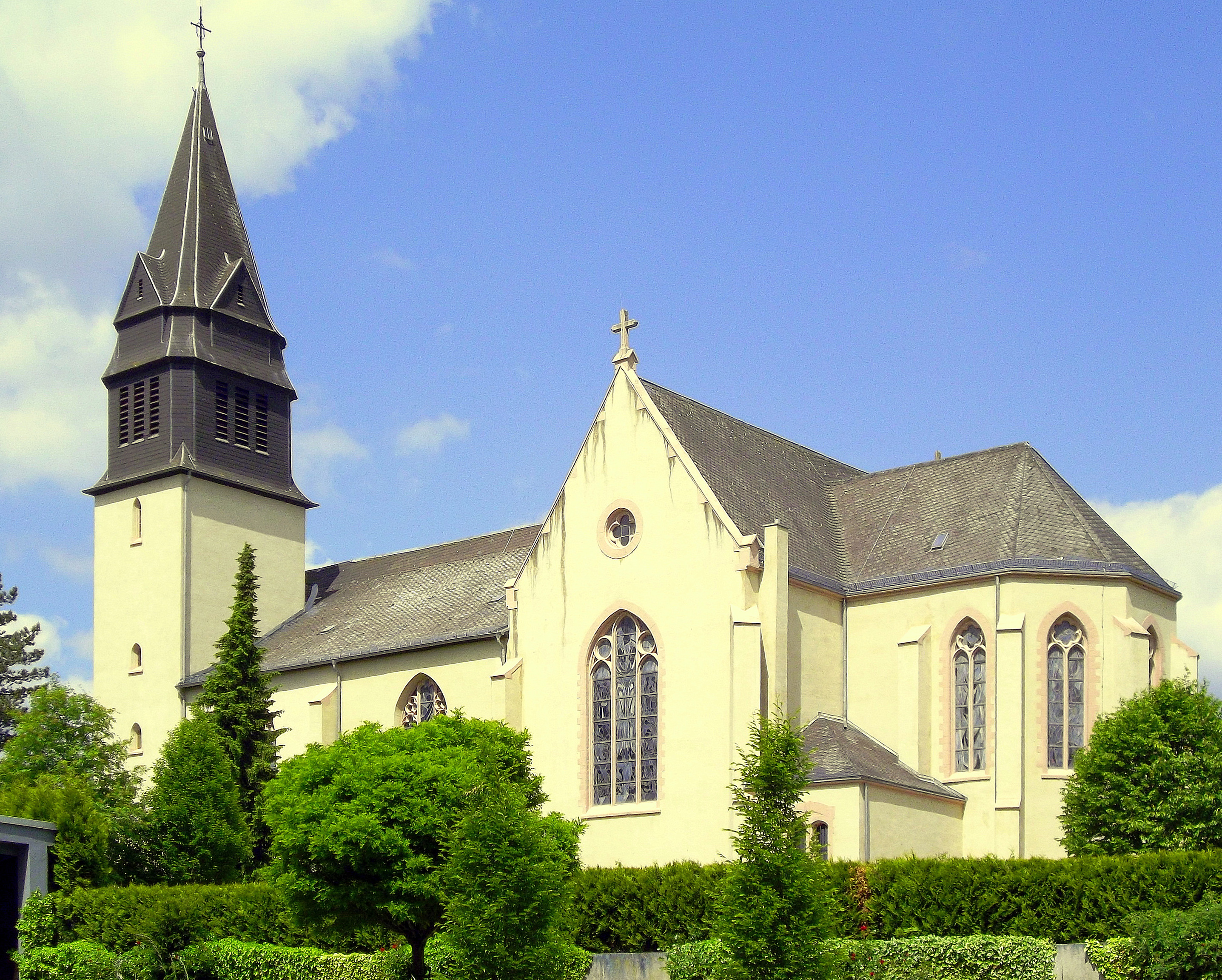 Exterior of the roman catholic church in Oberthal, Saarland, Germany